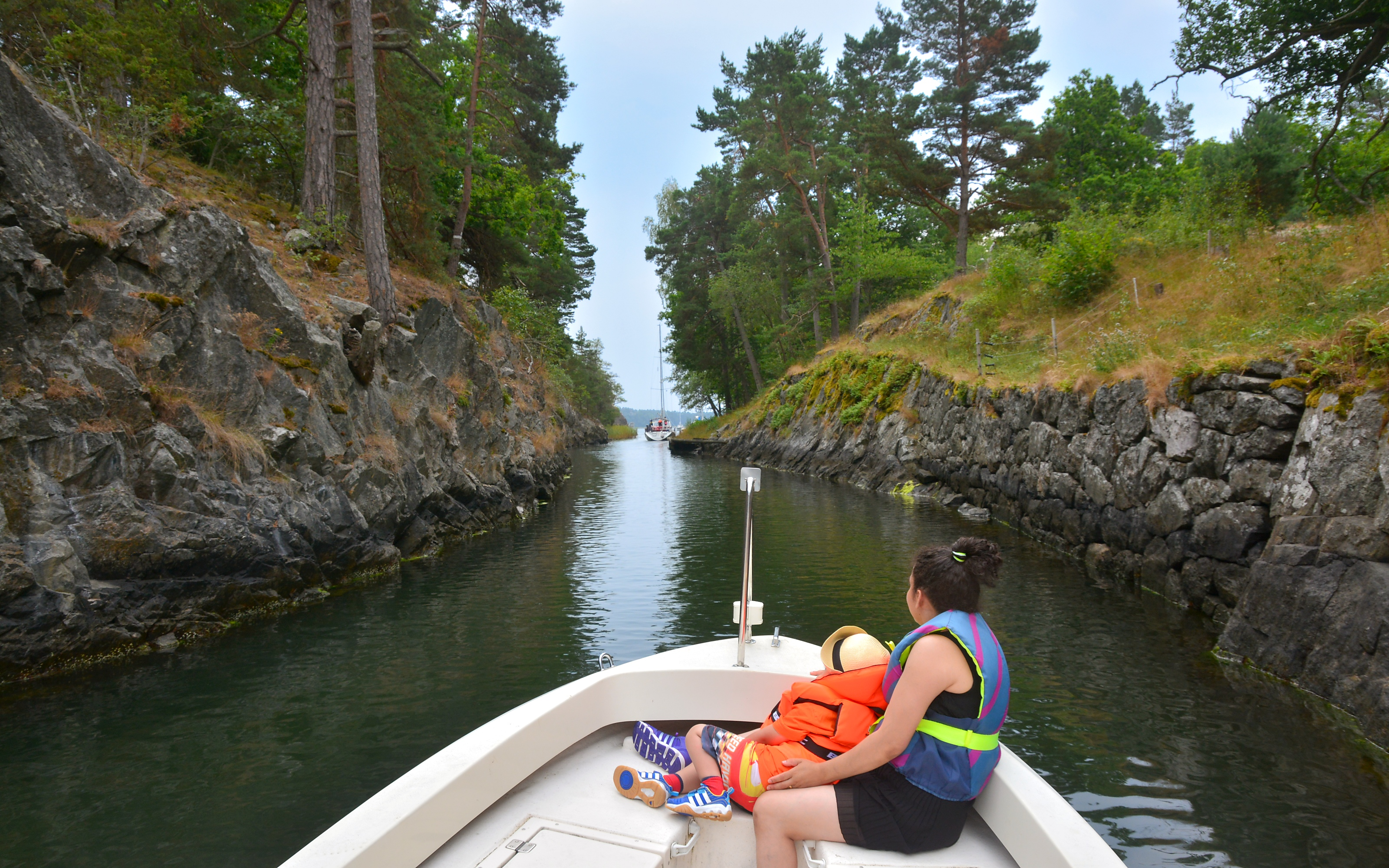 Draget Canal between Järflotta and Södertörn, Sweden.